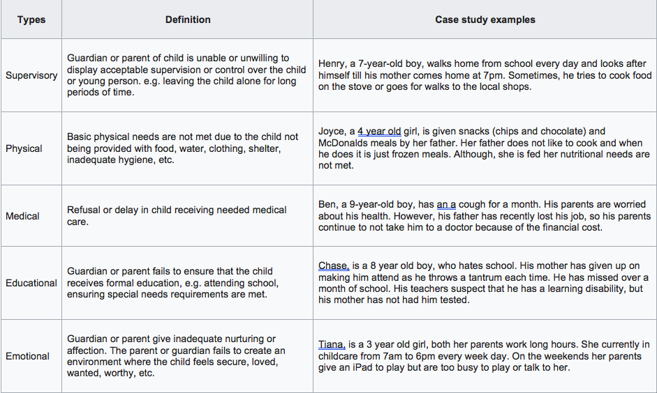 Table of types of neglect with case study examples